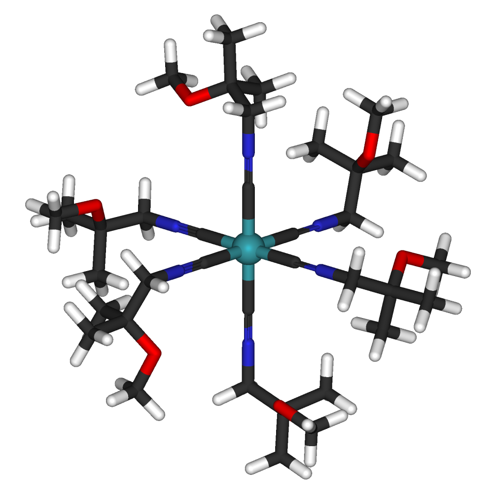 Stick model of technetium-99m sestamibi. Created using Accelrys DS Visualizer Pro 1.6 and GIMP, from data available at [1].